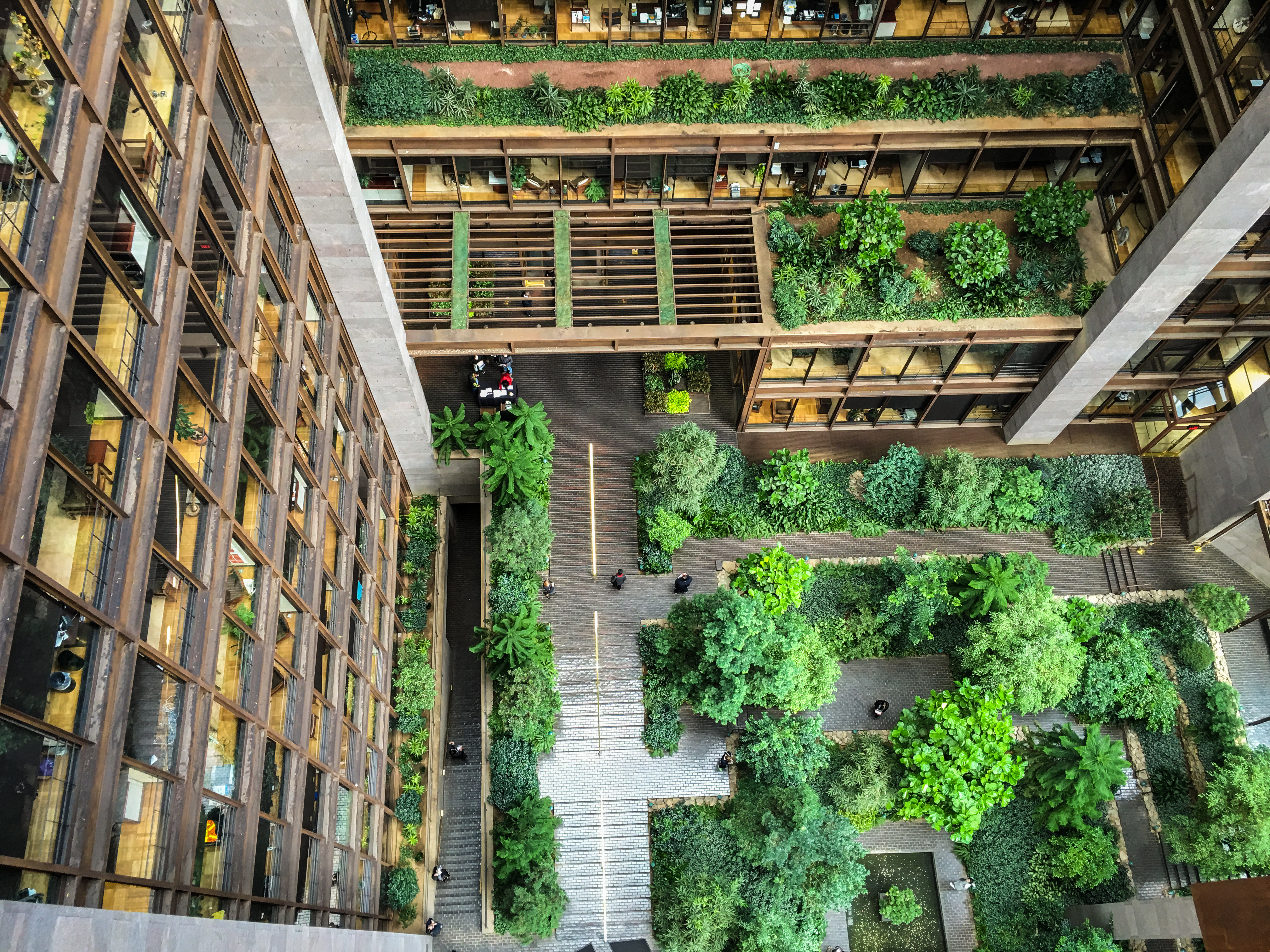 Ford Foundation headquartersSite: Ford Foundation